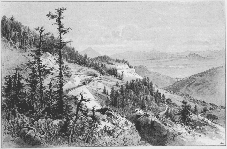 Tunnel outside Mikulov in Bohemia (present-day "Mikulov v Krušných horách" in the Czech Republic) on Most - Moldava railroad.